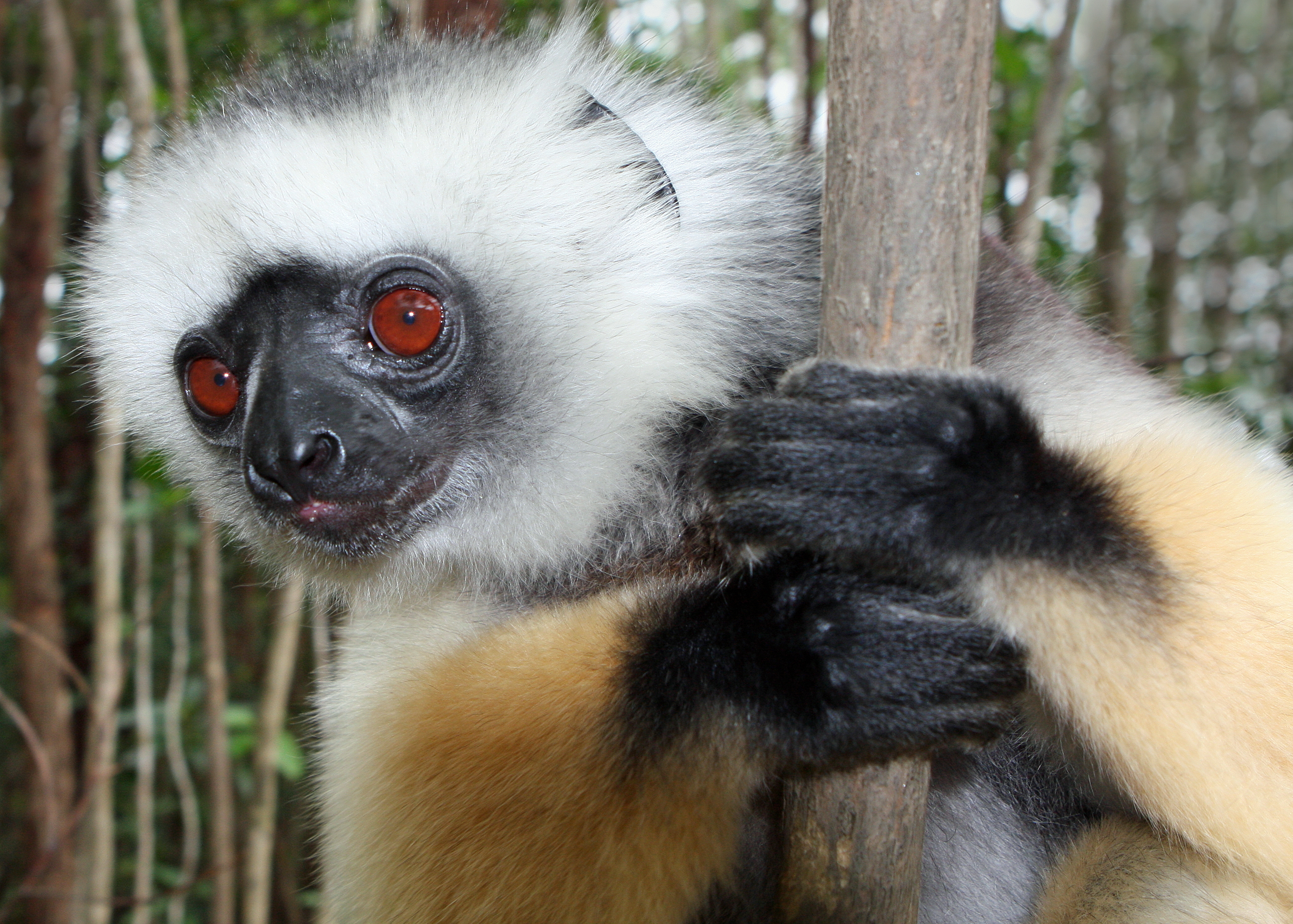 Diademed Sifaka (Propithecus diadema) in Andasibe